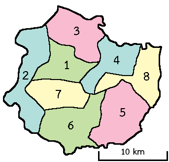 Subdistricts of Pathum Rat